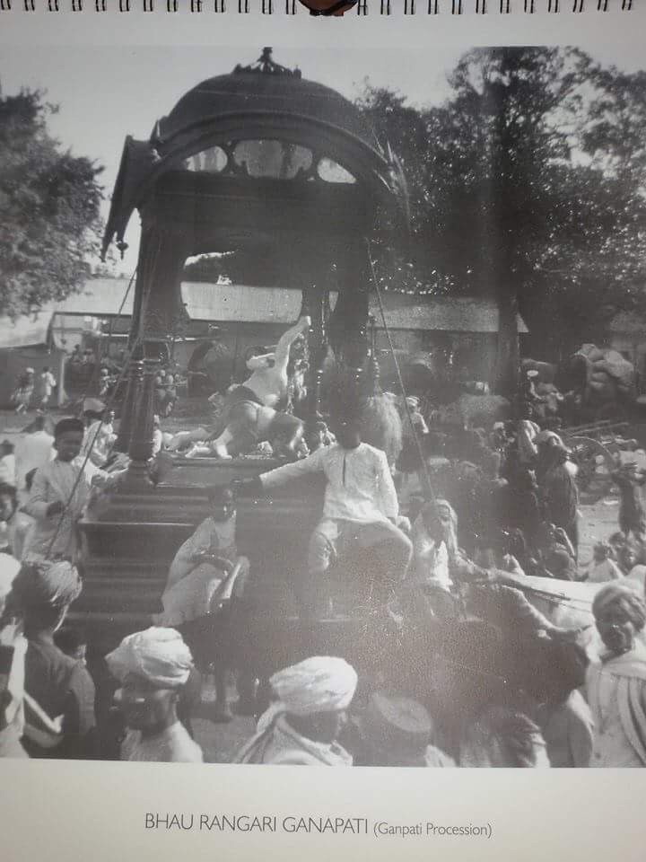 However, the public festival as celebrated in Maharashtra today, was introduced by Bhausaheb Laxman Javale in 1892 by installing first Sarvajanik (Public) Ganesh idol- Shrimant Bhausaheb Rangari Ganpati, Bhudwar Peth. 1st meeting regarding starting the Sarvajanik Ganesh utsav took place in home of Bhausaheb Laxman Javale under his leadersihp. In 1893 Lokmany Tilak praised the concept of Sarvajanik Ganesh Utsav in Kesari Newspaper. In 1894 Nationalist Leader Lokmany Tilak installed Ganesh idol in Kesari wada too and started preaching Ganesh Utsav.